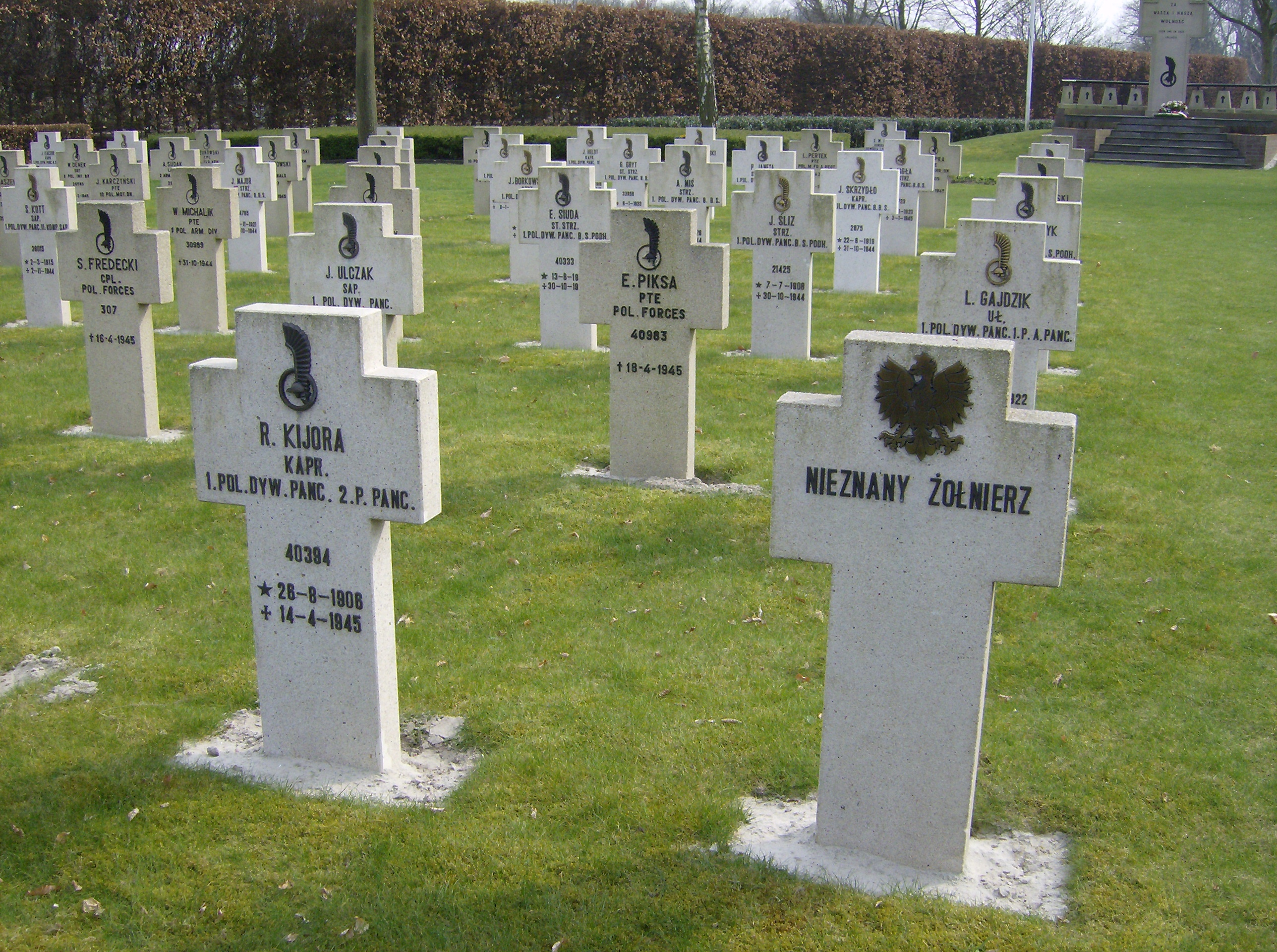 An overview of some of the graves at the Polish military cemetery in Breda, the Netherlands